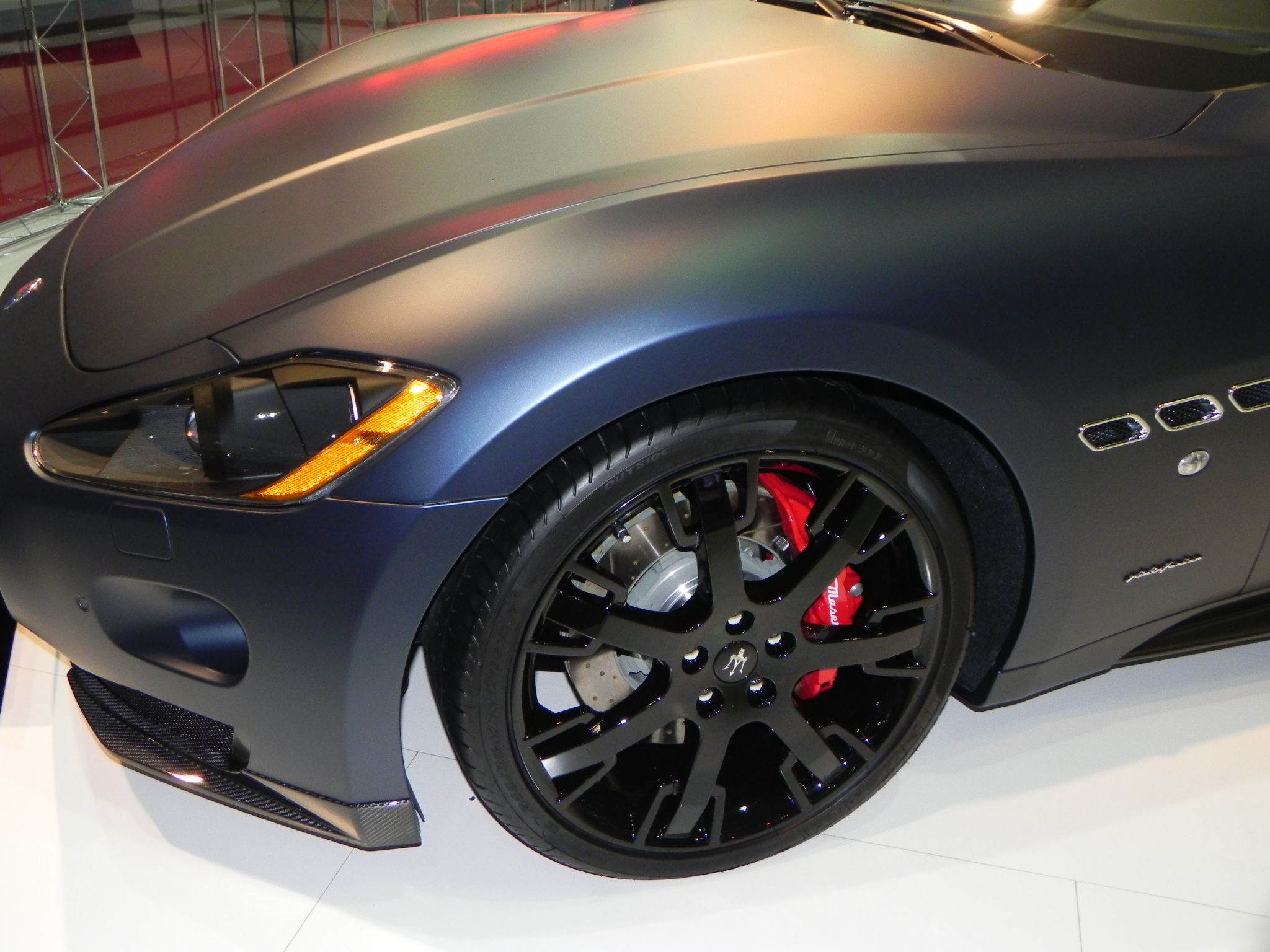 Fotos: Leandro Chemalle / .BR - 26/10/2010